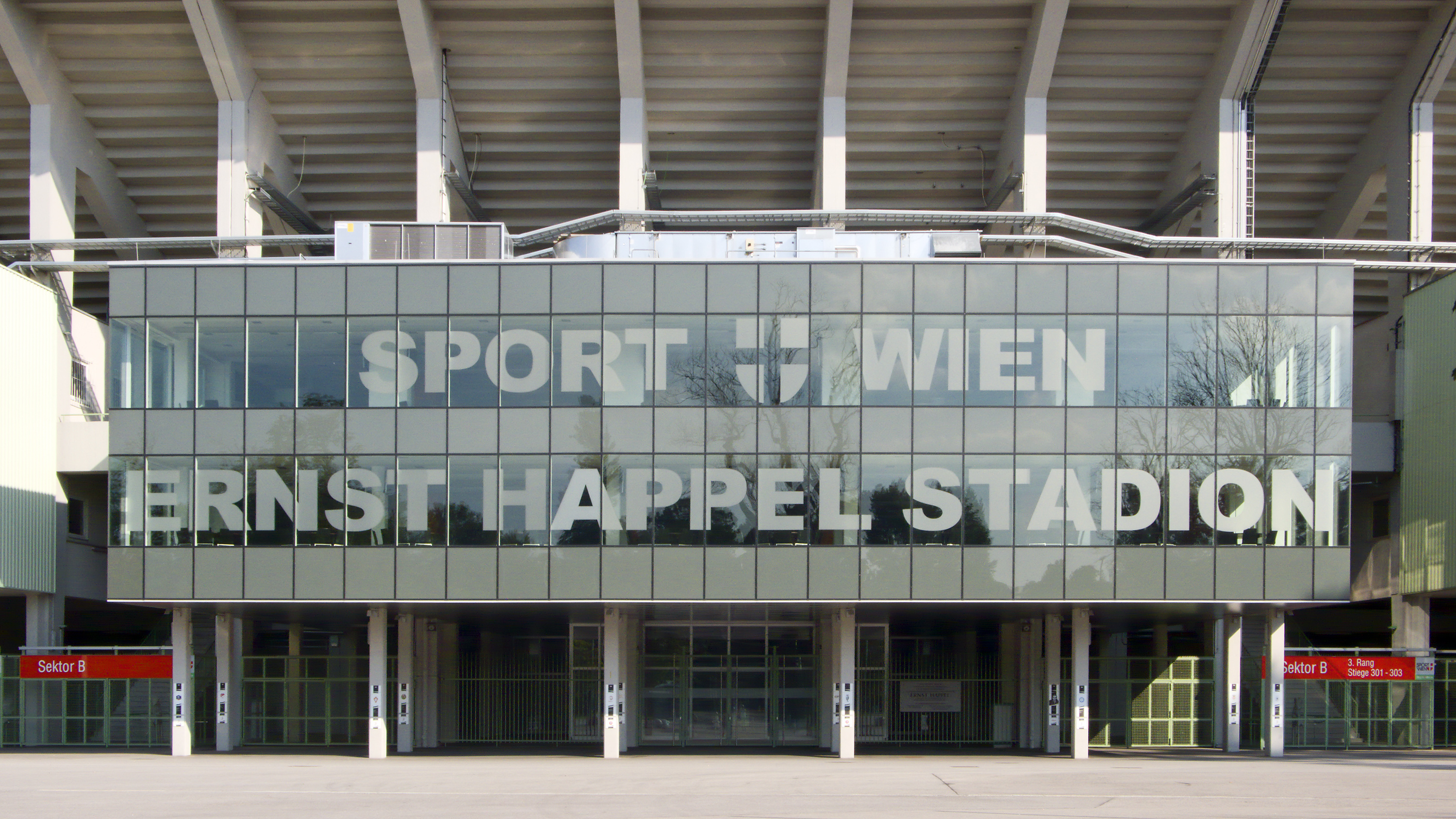 Stadium Ernst-Happel-Stadion in Vienna Leopoldstadt